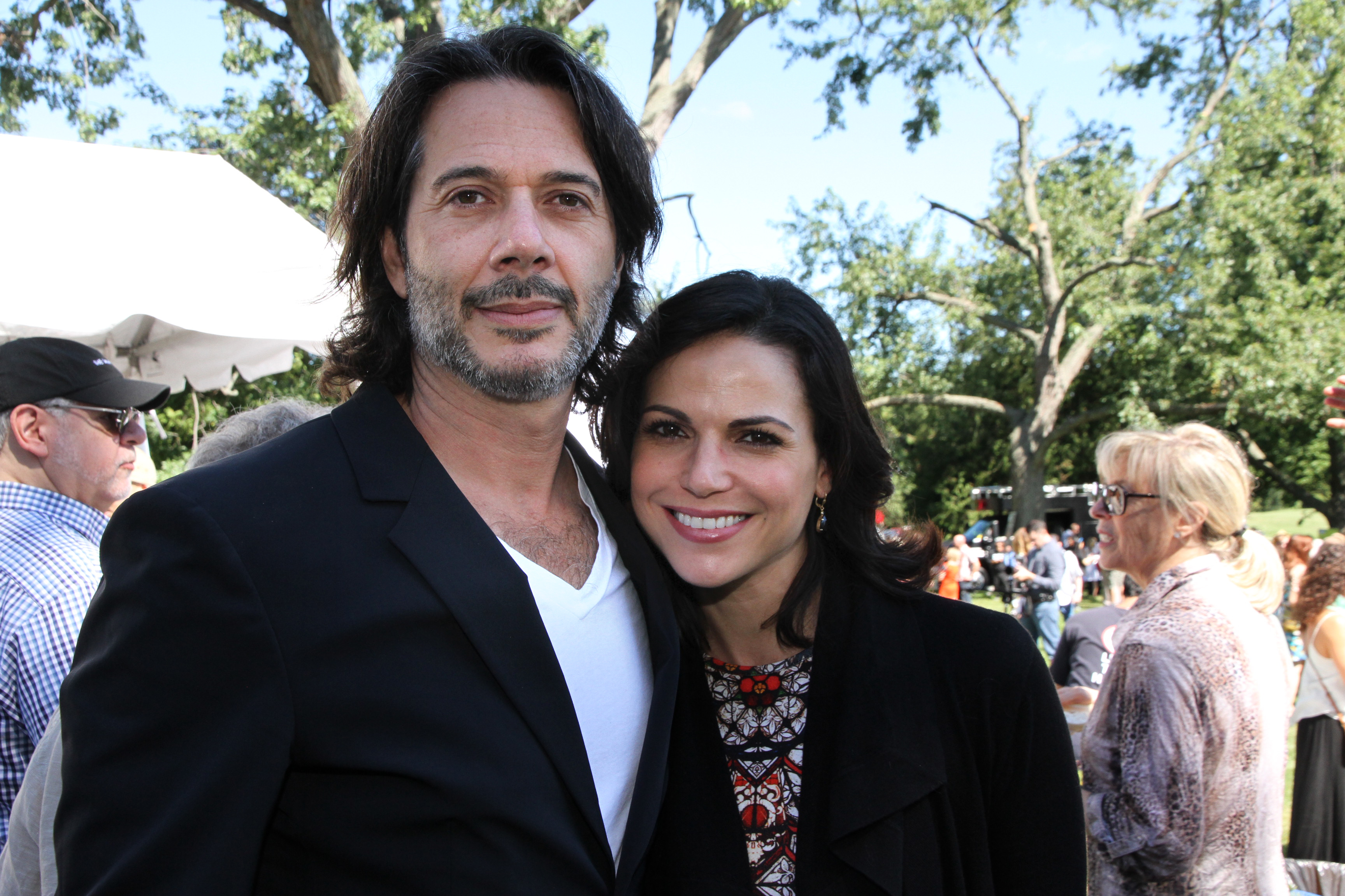 Lana Parrilla from ABC's "Once Upon a Time" and her husband Fred Di Blasio. Photos by: Danilo Ursini